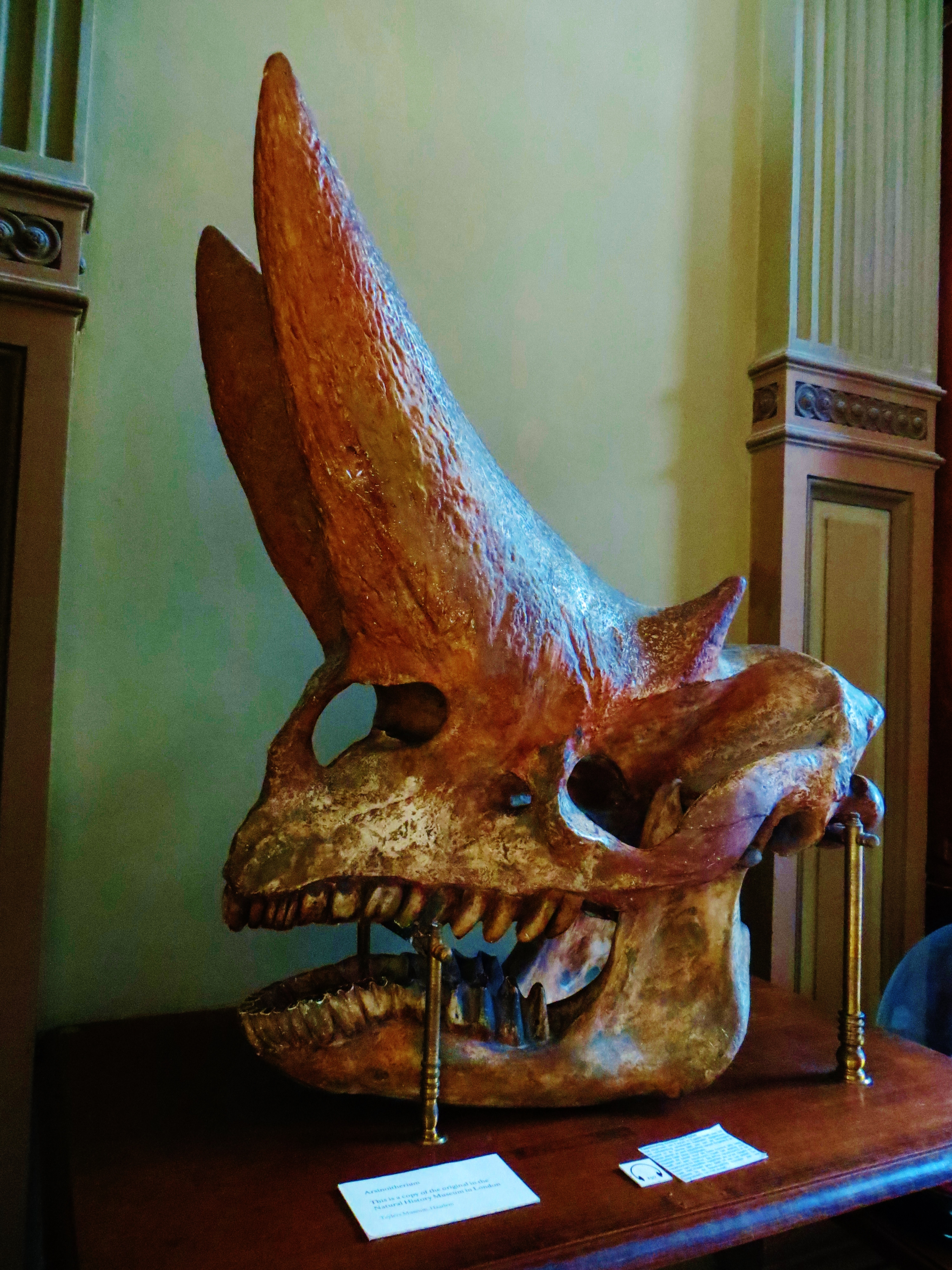 Fossil of Arsinoitherium, an extinct mammal. Took the picture at Teylers Museum, Haarlem